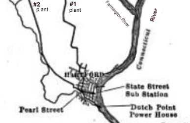 Hartford Electric Light Company (HELCO) electrical system in 1909